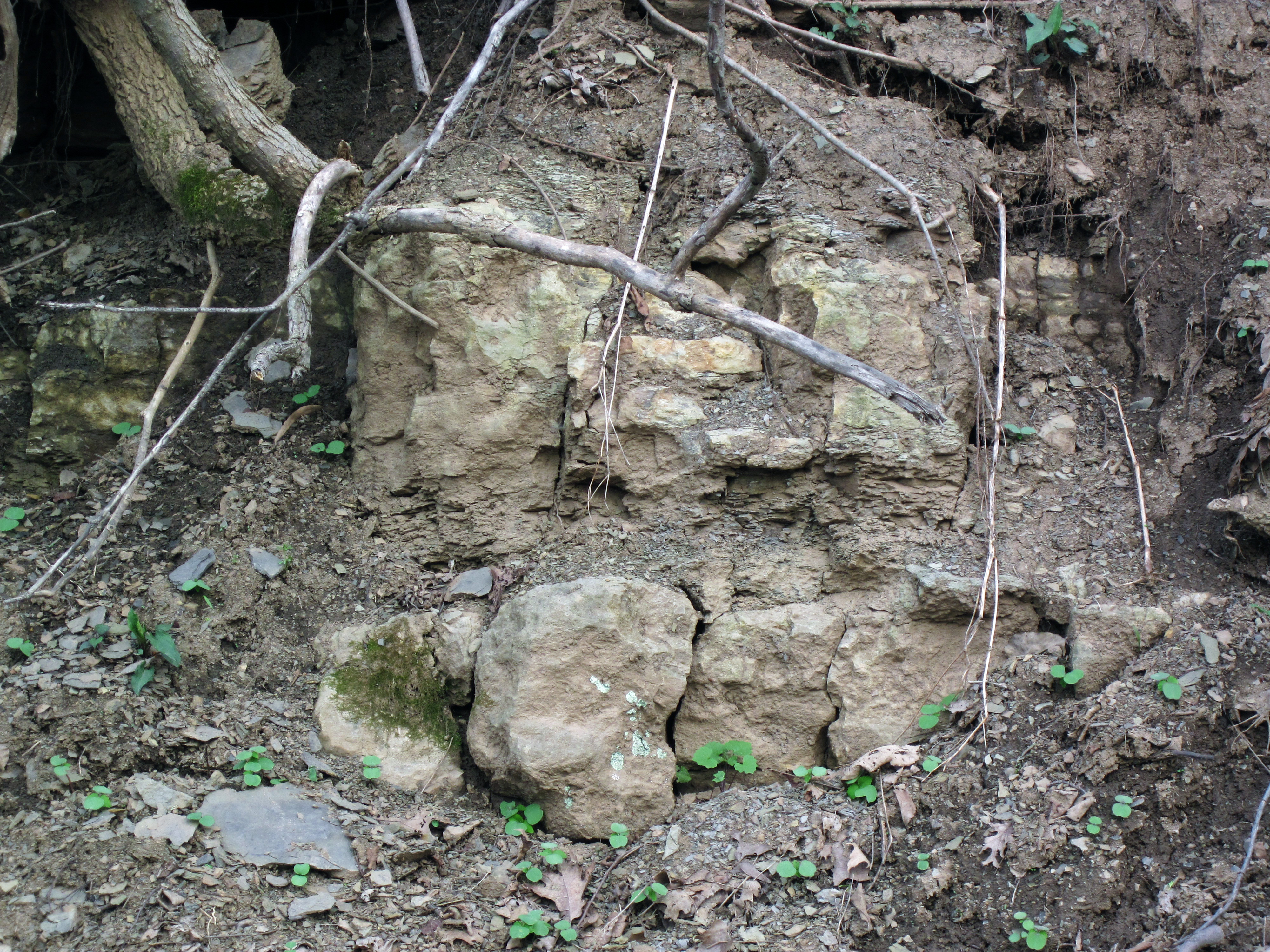 Nonmarine limestone in the Permian of Ohio, USA. The Upper Pennsylvanian to Lower Permian Dunkard Group of Ohio contains the youngest bedrock in the entire state. The unit consists of two stratigraphic formations: the Washington Formation (below) and the Greene Formation (above). This is a cyclothemic, nonmarine succession principally composed of shales, sandstones, lacustrine limestones, and thin coal beds. The rocks seen above are the Nineveh Limestone, a nonmarine carbonate unit in the Greene Formation (Lower Permian). These sediments were deposited in an ancient lake. The uppermost limestone bed of the Nineveh (not visible here) consists of cryptalgally-laminated micrite and dismicrite with fossil ostracods and ostracod vugs. Above that is a soft, argillaceous limestone to calcareous shale unit (also not visible here) with a capping, two inch-thick coal bed called the Nineveh Coal (= weathered and covered and also not visible here). Stratigraphy: lower & middle parts of the upper series of the Nineveh Limestone, unit GR16 of Cross et al. (1950), Greene Formation, upper Dunkard Group, Lower Permian Locality: Clark Hill section - roadcut on the southeastern side of Long Ridge Road, south of Oppossum Creek, south-southeast of the town of Clarington, southeastern Alum Township, eastern Monroe County, eastern Ohio, USA (GPS: 39° 43.676’ North latitude, 80° 51.018’ West longitude) Reference cited: Cross et al. (1950) - Field guide for the special field conference on the stratigraphy, sedimentation and nomenclature of the Upper Pennsylvanian and Lower Permian strata (Monongahela, Washington and Greene Series) in the northern portion of the Dunkard Basin of Ohio, West Virginia and Pennsylvania. 107 pp.